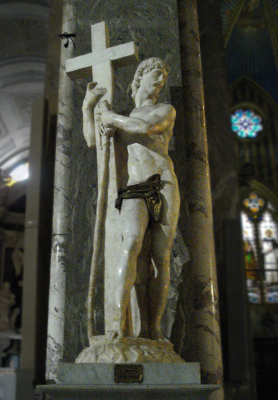 Michelangelo's Christ the Redeemer in the Basilica di Santa Maria sopra Minerva, Rome.